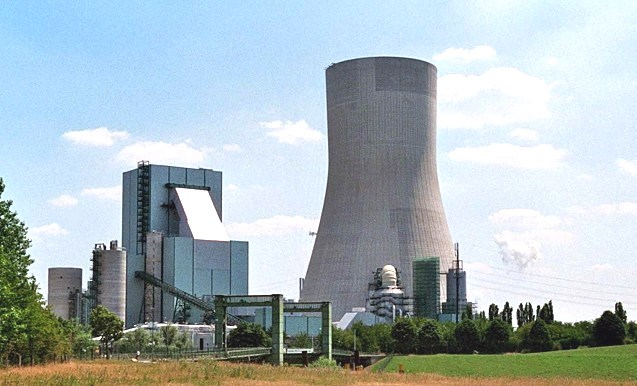 Power station Duisburg Walsum